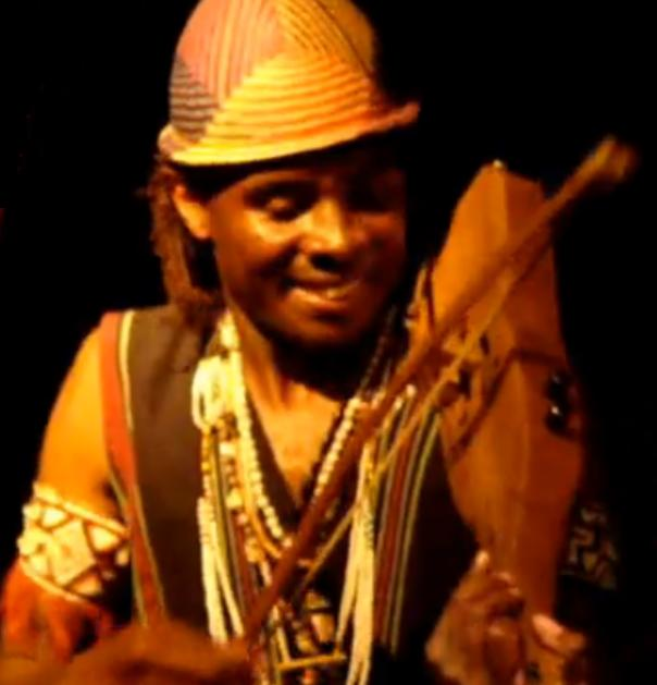 A member of Vilon'androy, a contemporary roots band from southern Madagascar, playing the lokanga for an audience in Paris. Lemurbaby (talk) 06:42, 6 November 2010 (UTC)